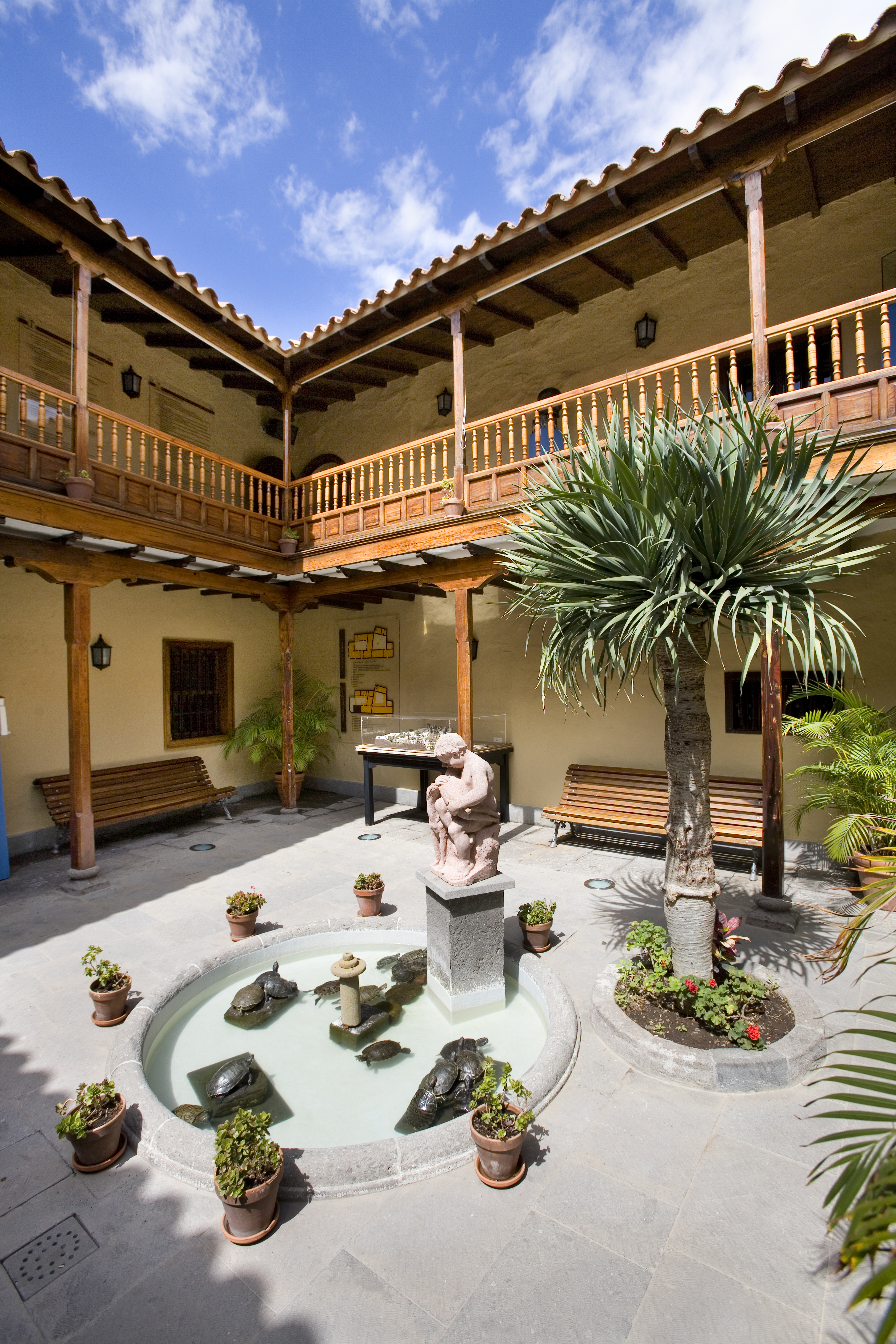 León y Castillo